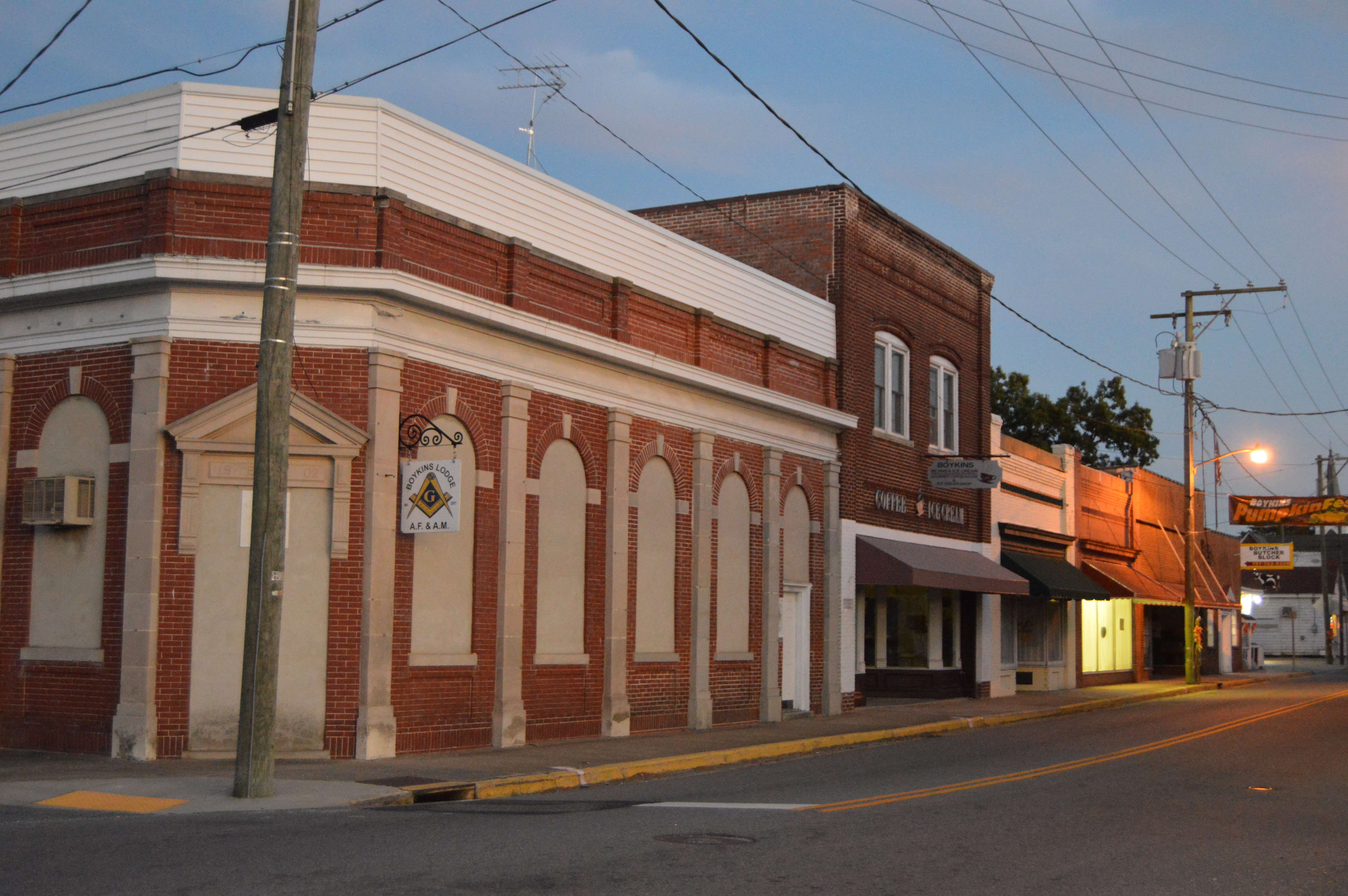 Looking south on Main Street (State Route 35) from the railroad crossing in Boykins, Virginia, United States.